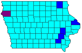 A map of the counties won by each candidate in the Iowa Democratic caucuses of 2000.